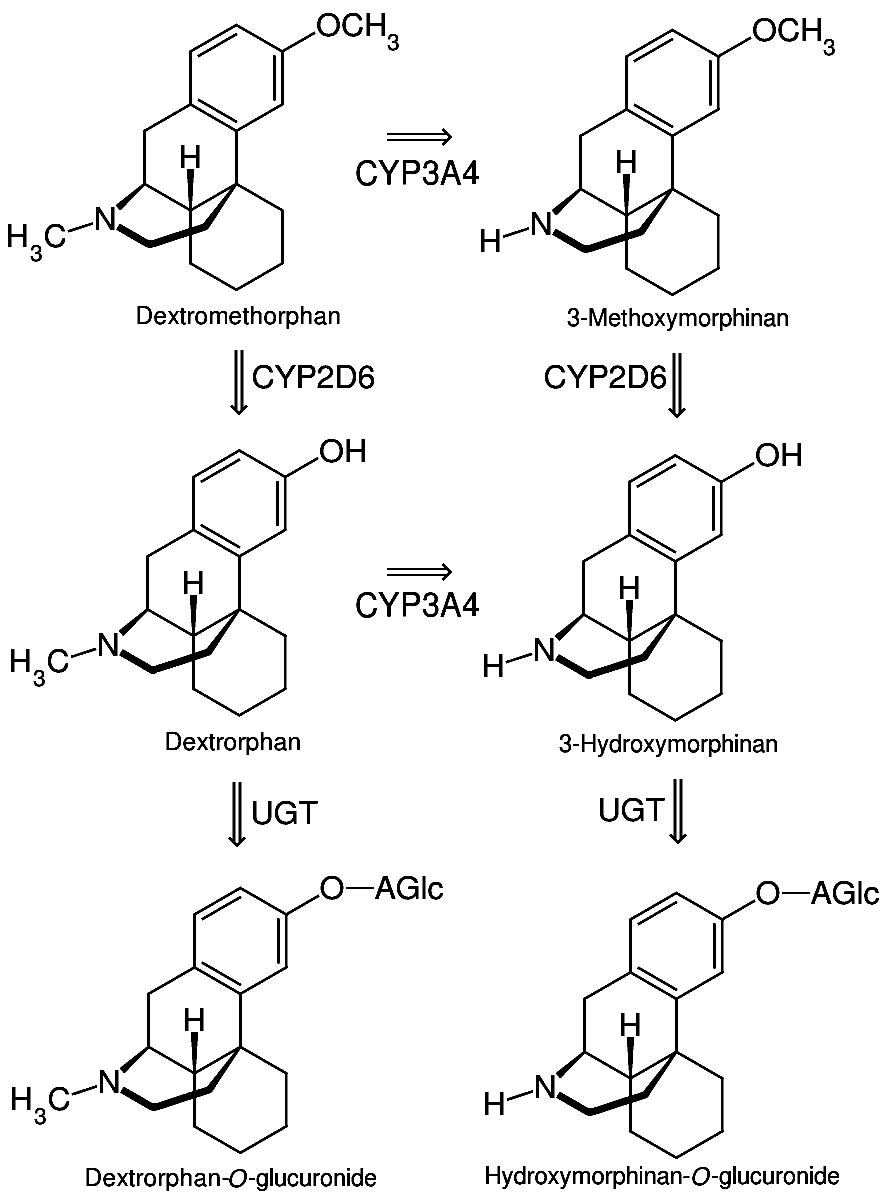 Main metabolism pathways for dextromethorphan degeration catalyzed by cytochrome P450 monooxygenases (CYP3A4 and CYP2D6) and UDP-glucuronosyl-transferase (UGT). Source: Katja Strauch, Ursula Lutz, Nataly Bittner, Werner K. Lutz: Dose-response relationship for the pharmacokinetic interaction of grapefruit juice with dextromethorphan investigated by human urinary metabolite profiles. Food and Chemical Toxicology: An International Journal Published for the British Industrial Biological Research Association, August 2009, nro 8, s. 1928–1935. PubMed:19445995. ISSN 1873-6351.